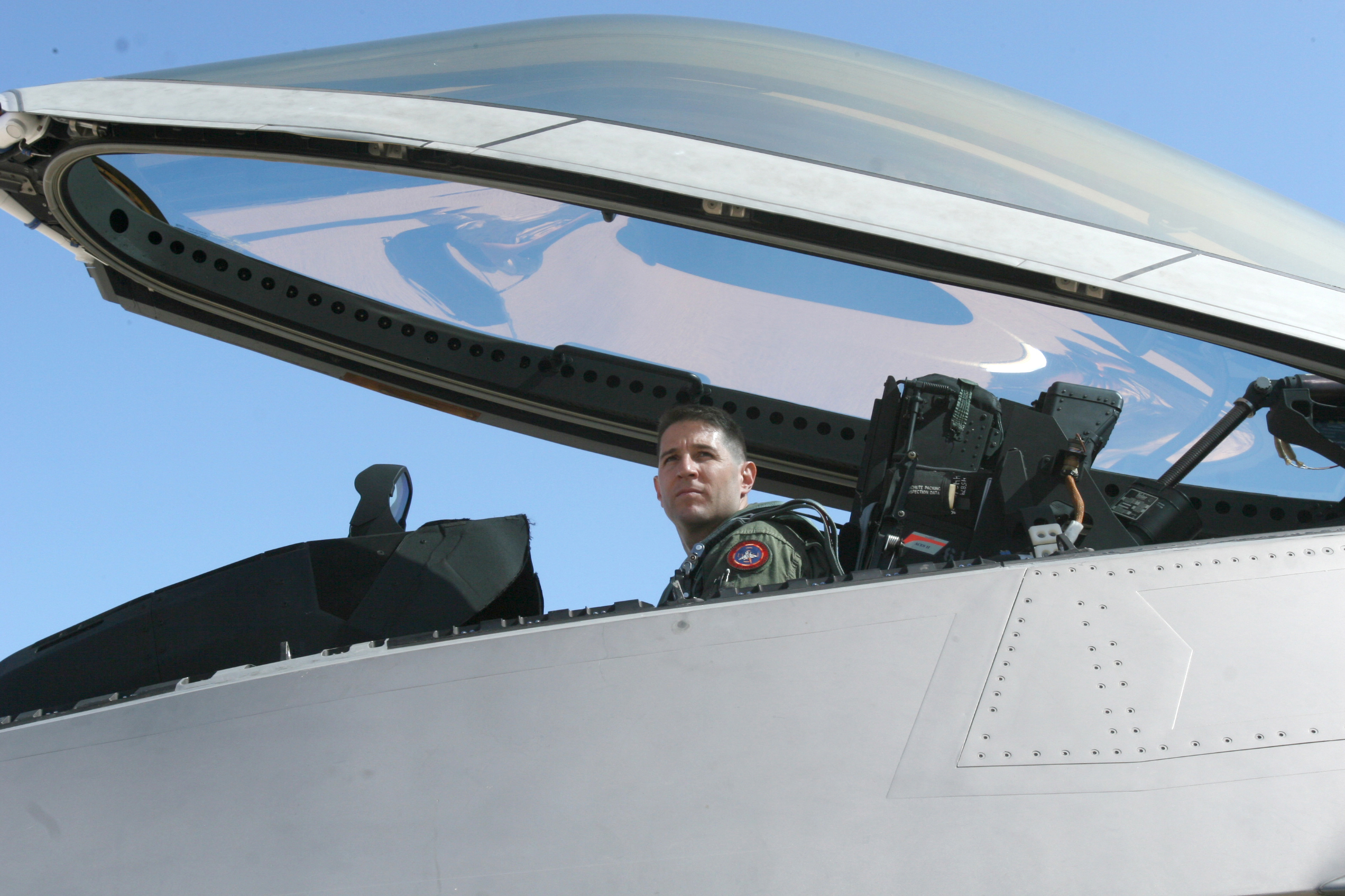 After climbing into the cockpit of an F-22 "Raptor" to perform a system's check, Lt. Col. David R. Berke, the Marine Corps F-22 exchange pilot, 422nd Test and Evaluation Squadron, Nellis Air Force Base, Nev., glances over to his air traffic controller for further instructions June 25. For approximately four weeks, Berke participated in exercise Trident Warrior held at Marine Corps Air Station Miramar.